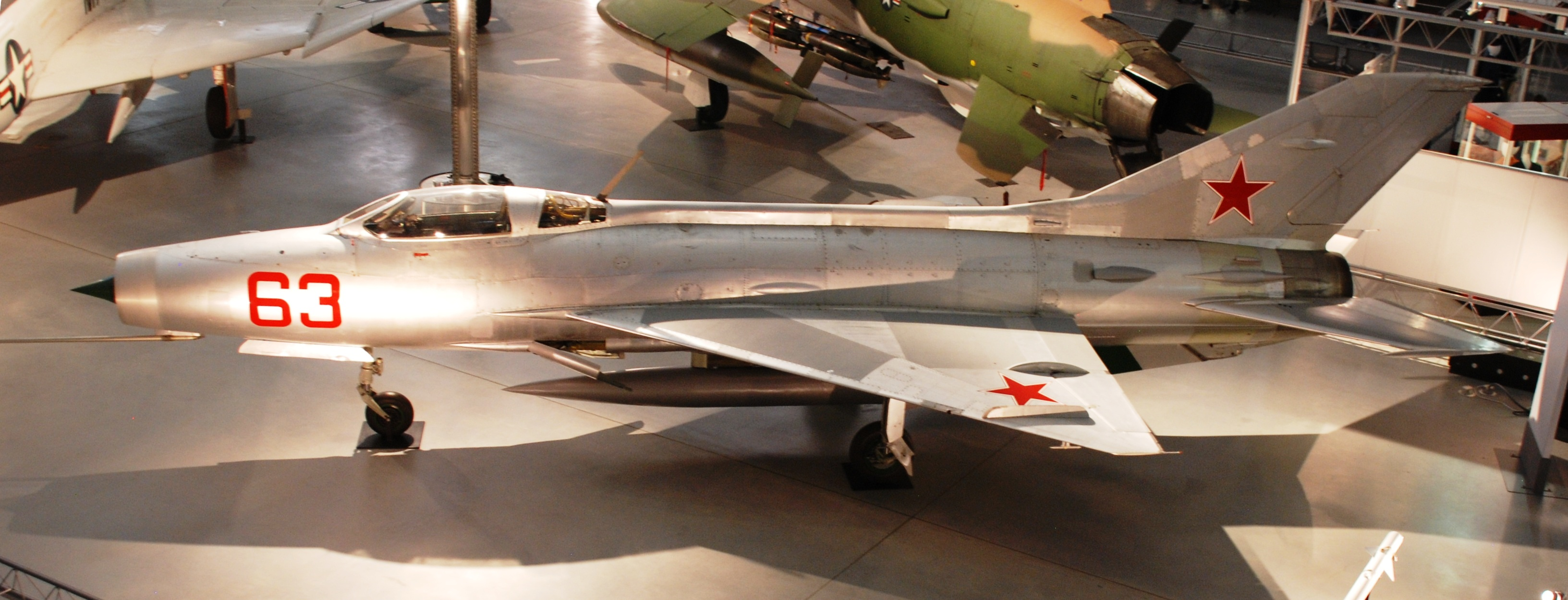 A MiG-21F "Fishbed C" in Steven F. Udvar-Hazy Center "This MiG21F-13 was displayed in a Soviet military hardware exhibit at Bolling Air Force base in Washington DC, as part of a "Soviet Awareness" training program. Its service history is unknown"